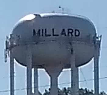 Water tower located in Millard neighborhood of Omaha, Nebraska, on the corner of 144th and Q Sts.